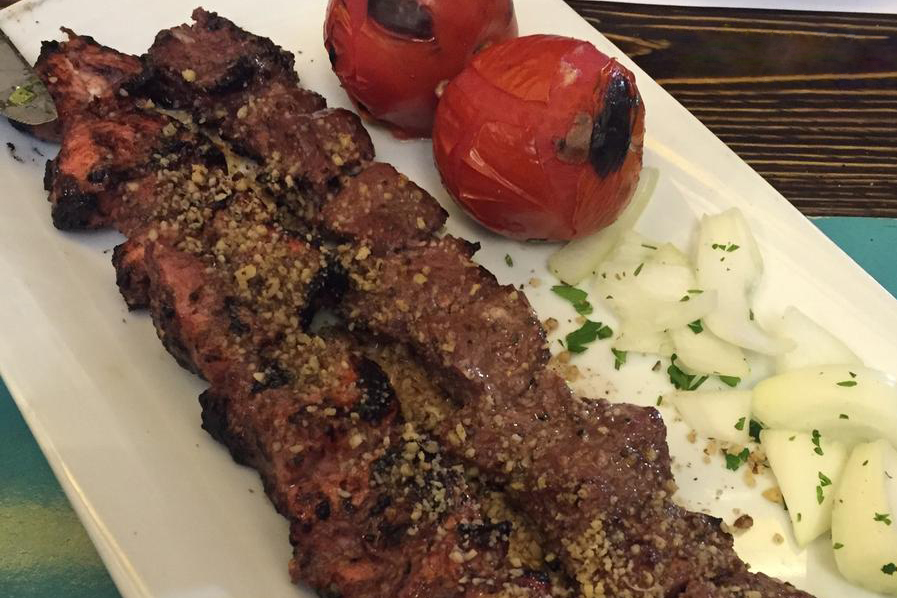 Torsh kebab, a traditional sour Iranian kebab from Gilan and Mazenderan. It is marinated in a paste made of crushed walnuts, pomegranate juice, and olive oil.